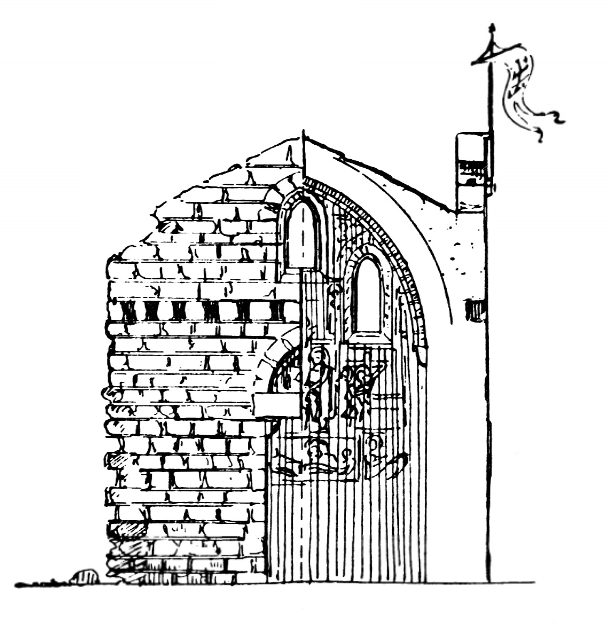 Royal Chapel of Agia Aikaterini (St. Catherine), Pyrga